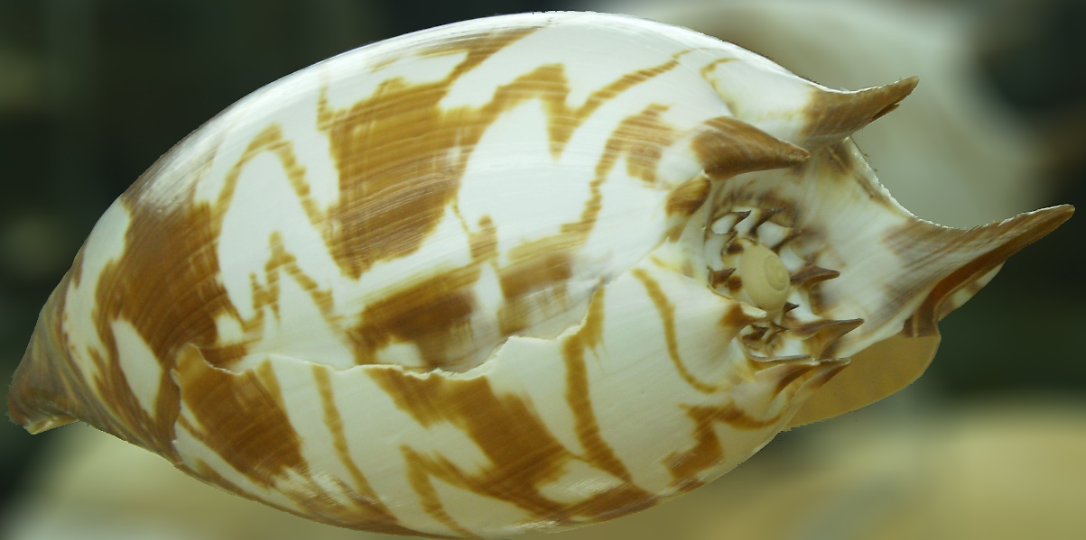 Photo from exhibition in Zaporizhzhya. Background blurred